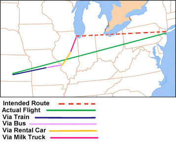 Route taken by Del Griffin and Neal Page in the movie Planes, Trains and Automobiles Summary Red dotted line - Intended route New York to Chicago via plane Green line - Actual flight - A snowstorm in Chicago closes the airport forcing the plane to be rerouted to Wichita, Kansas. Dark blue line - "People Train" from the fictional Stubbville, Kansas, (a little further from Wichita). Train breaks down somewhere in Missouri. Passengers have to walk a mile to the highway where trucks will take them to Jefferson City, Missouri. Light purple line - Bus from Jefferson City to St. Louis Yellow line - Rental car from St. Louis airport to somewhere in Illinois. Pink line - Del and Neal catch a milk truck approximately 3 hours outside of Chicago.